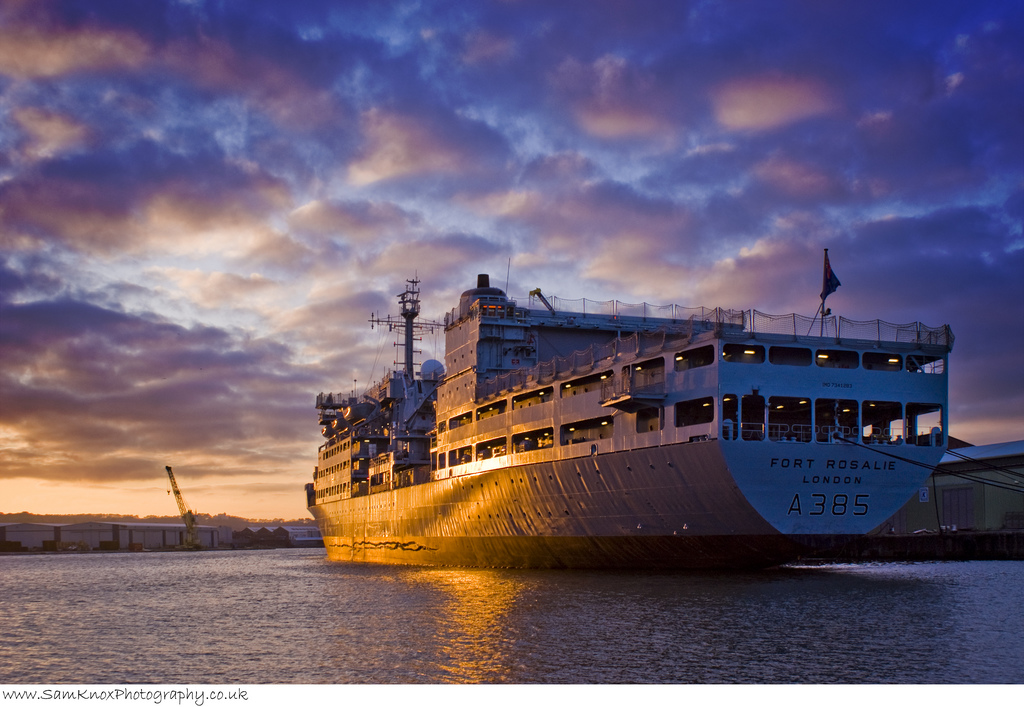 RFA Fort Rosalie, in Cammell Laird's Birkenhead Docks undergoing a refit by Northwestern Shiprepairers in February 2009.